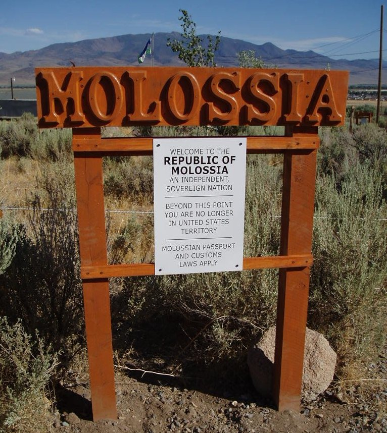 Sign at the entrance to the Republic of Molossia.